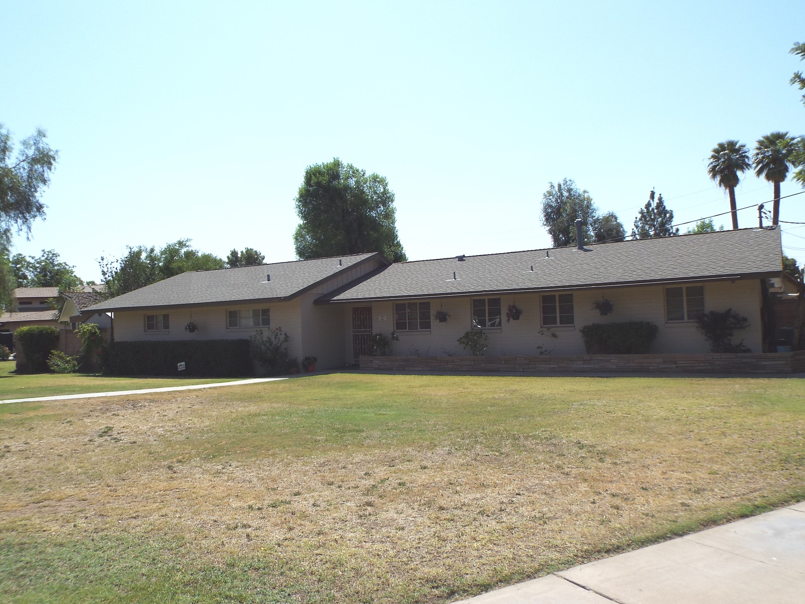 The Evan Mecham House was built in 1960 and is located at 5741 West Harmont Drive in Glandale, Arizona. Evan Mecham served as the 17th Governor of Arizona from January 5, 1987 to April 4, 1988 when he was impeached. The house is located in the Thunderbird Estates/ McDonald Addition Historic District. The district was listed in the national Register of Historic Places on June 30, 2010, reference #10000235.